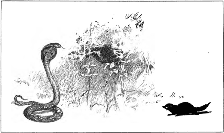 "'I am Nag,' said the Cobra: 'Look, and be afraid!' But at the bottom of his cold heart, he was afraid."